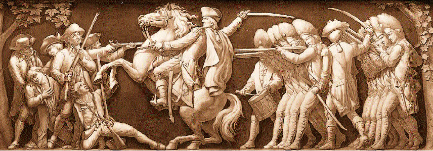 "Battle of Lexington" - British troops fire on colonists, who had gathered at Lexington to stop them from going on to Concord to destroy a colonial supply depot. Major Pitcairn, the British officer on horseback, had ordered the colonists to disarm and disperse. As they began to do so, a single shot was fired, which led to an exchange of fire between a British platoon and the colonial militia. Eight militiamen were killed and ten wounded before Pitcairn regained control of his troops. Thus the American Revolution started, with "the shot heard round the world."